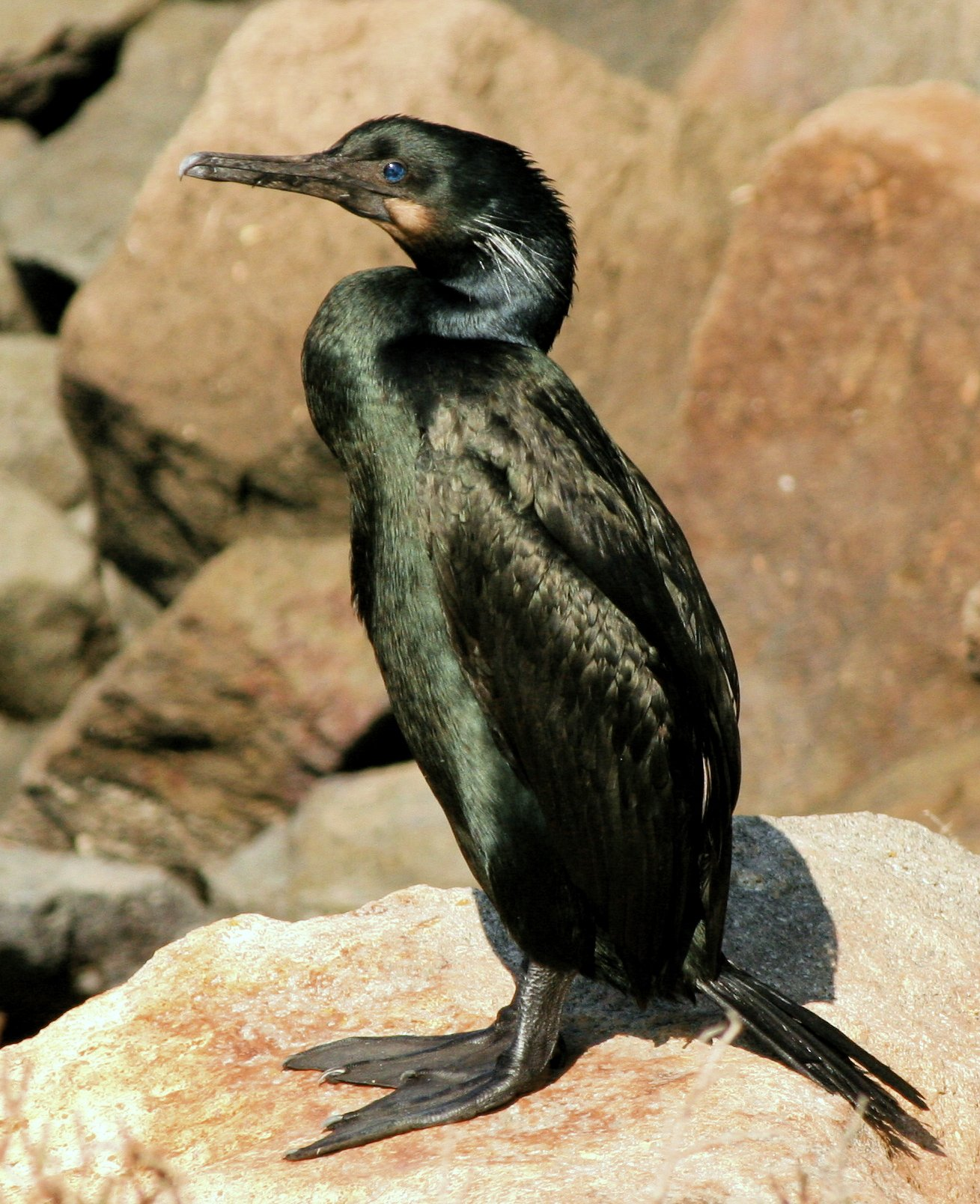 Adult Brandt's Cormorant coming into breeding plumage with white feathers on the back and at the rear of the cheek.